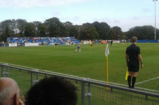 Hartsdown Park, home of Margate F.C. I took the photo